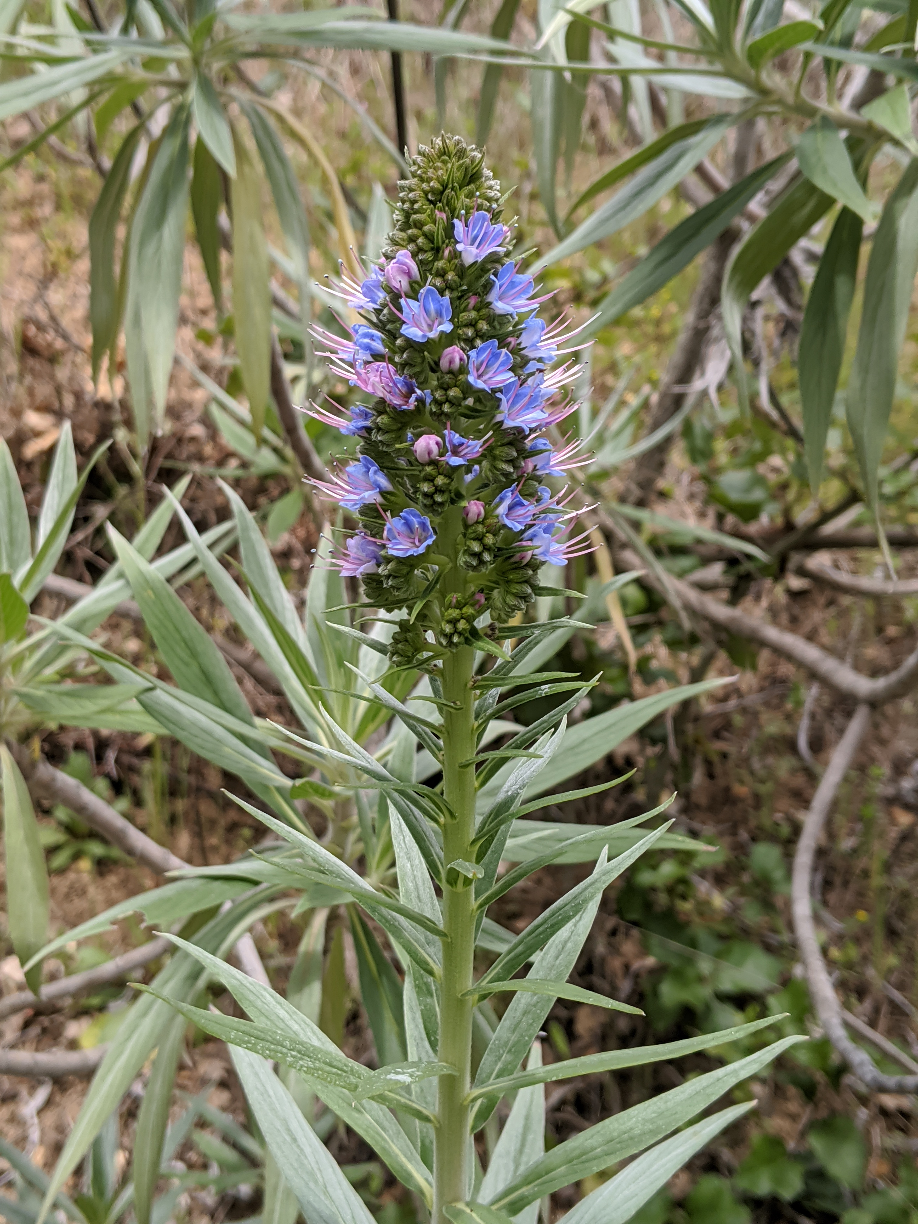 A Pride of Madeira plant, by Hale Creek and the Mary Stutz Path in Los Altos Hills, California